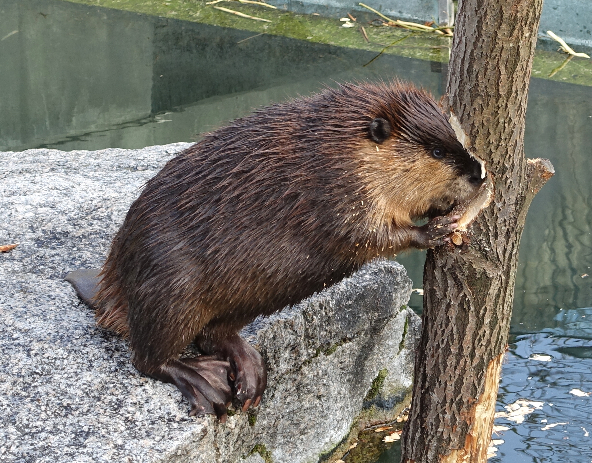 Castor canadensis in the Wilhelma Zoo - Stuttgart, Germany.